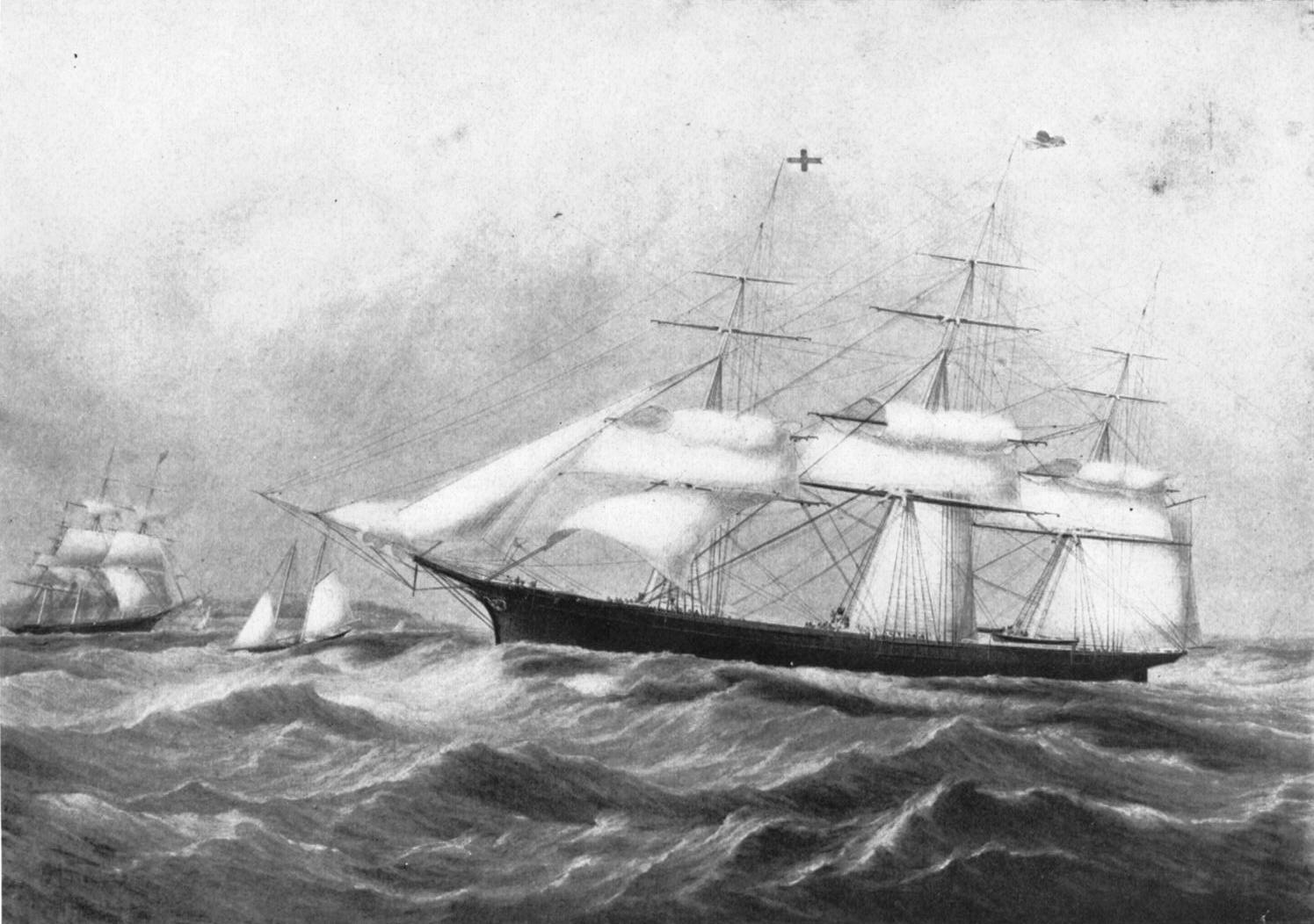 Stag Hound, 1850 clipper ship